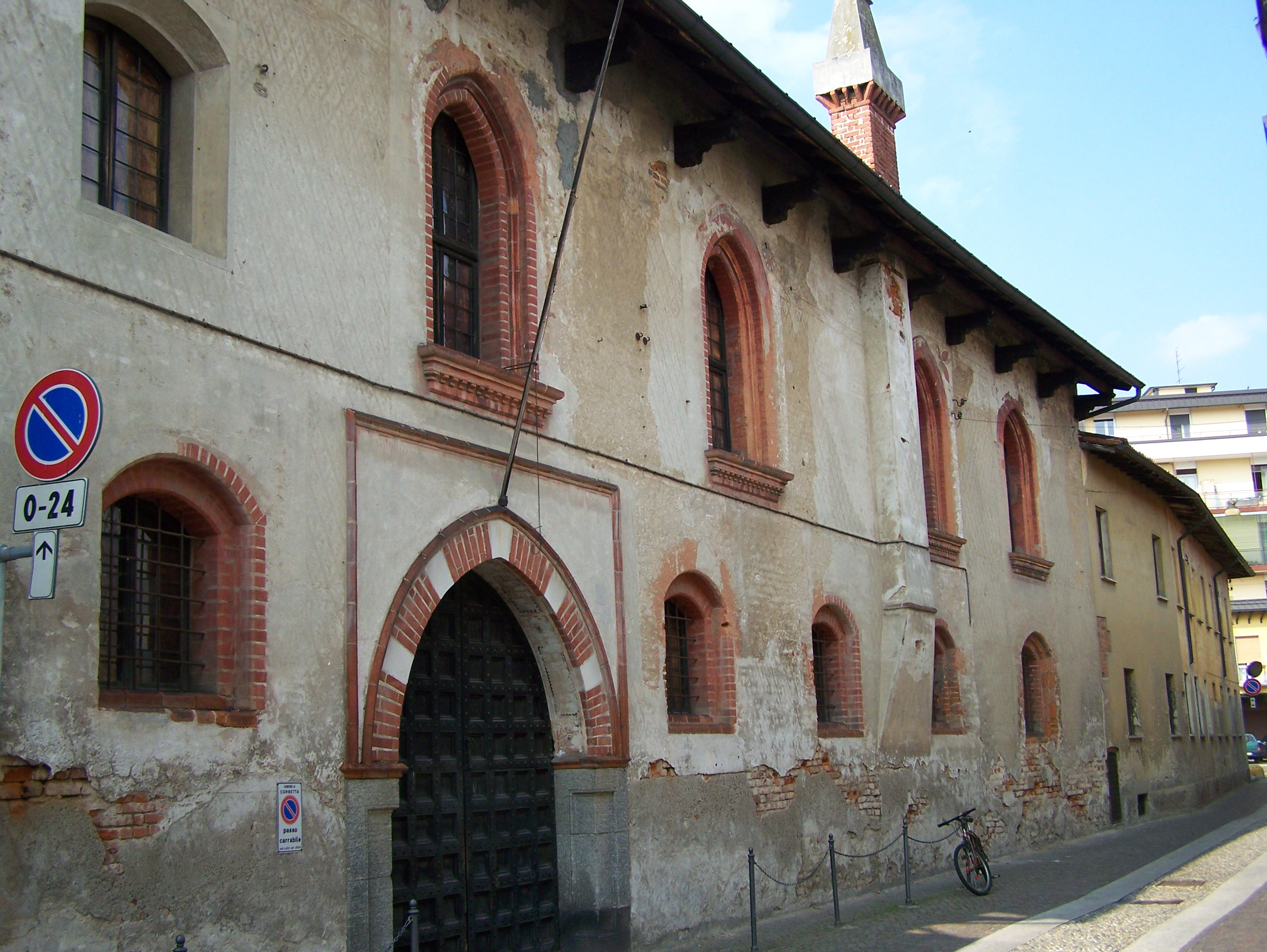 Villa Pisani-Dossi in Corbetta (MI) - Italy